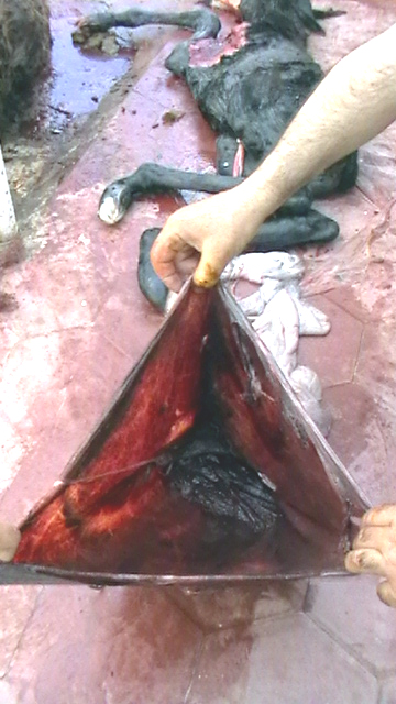 afterbirth from she donkey pregnant of mule foal : inspection of inside Walon: Netieure d' ene både k' a bådlé on moultea (riwaitaedje ådvins)